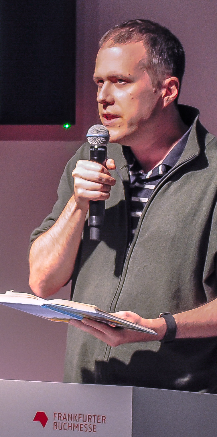 Leo Fischer Frankfurter Buchmesse 2018